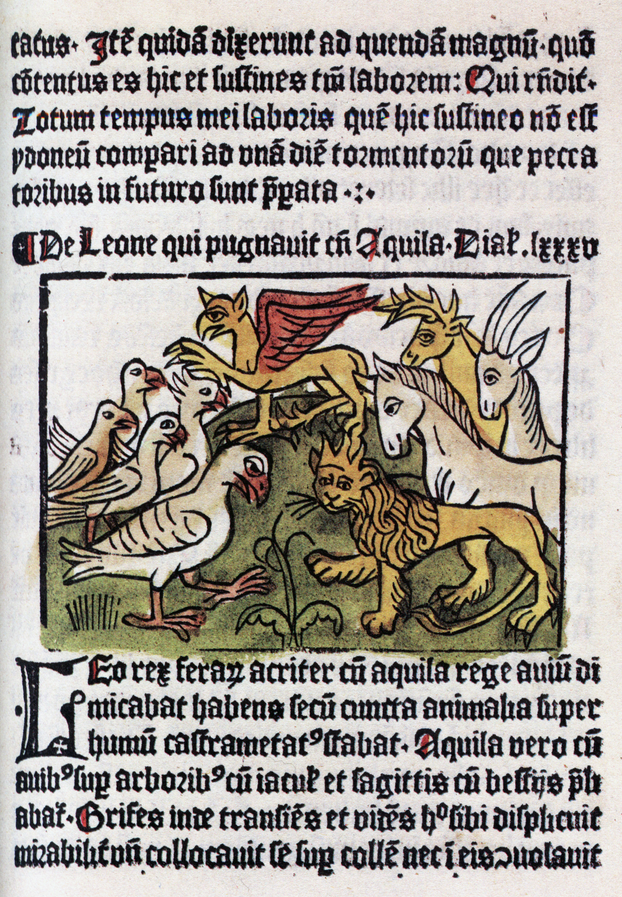 A page from Johann Snells edition of Dialogus creaturum. The first book to be printed in Sweden